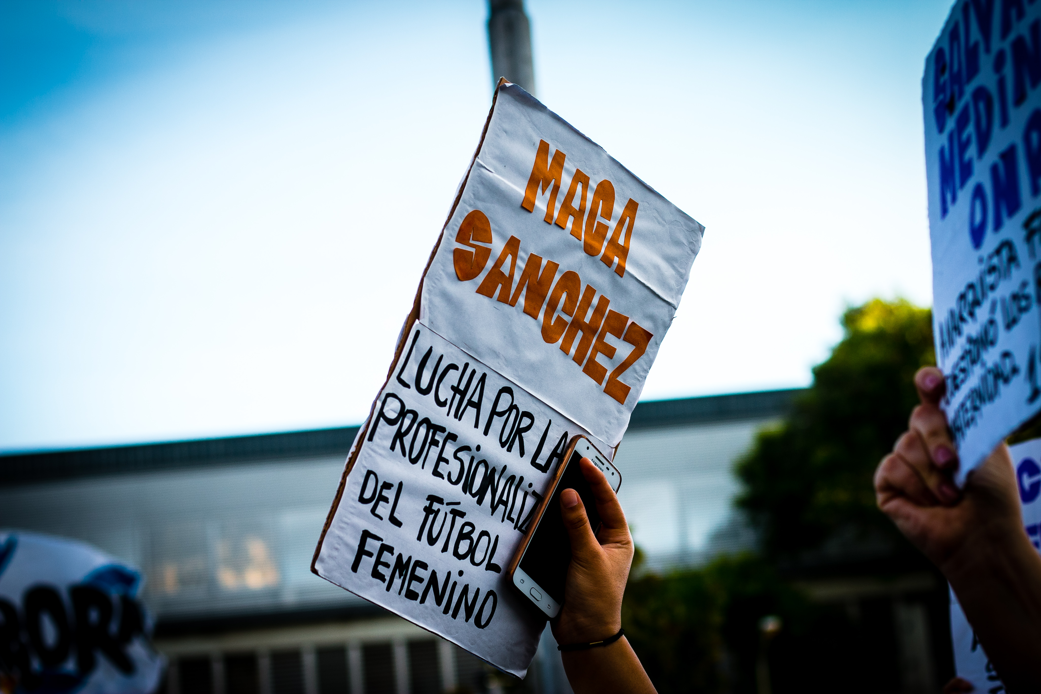 International Women's Strike - 8M - Paraná - Entre Ríos - Argentina - March, 2019